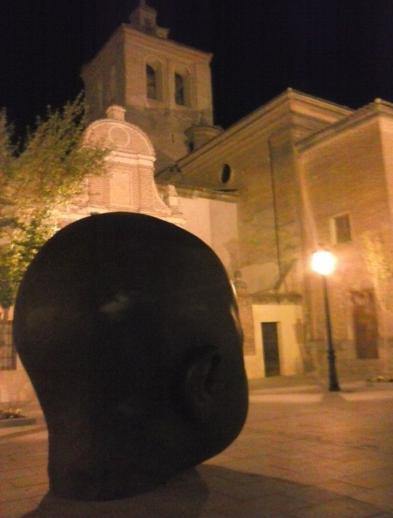 Church of El Salvador (Arévalo)